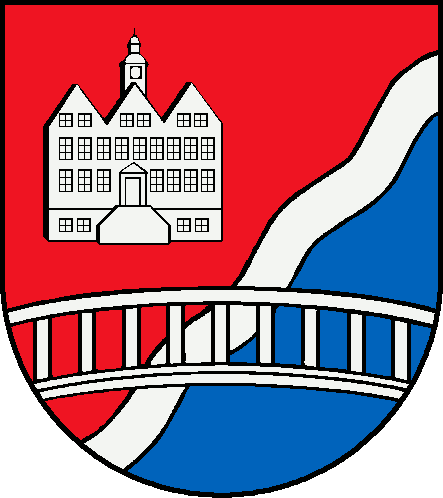 Coat of arms of the municipality Travenbrück in Schleswig-Holstein, Germany.